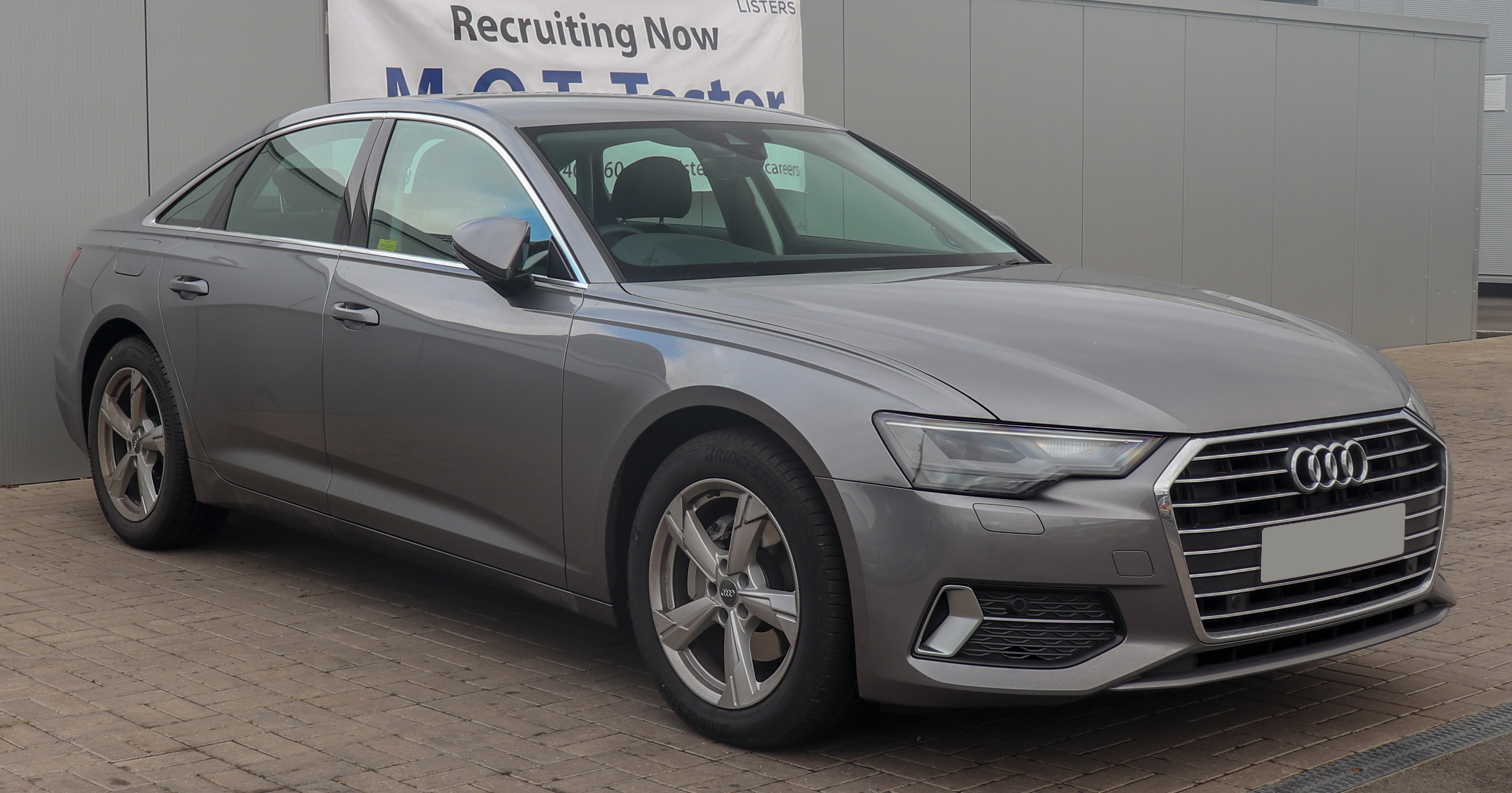 2018 Audi A6 Sport 40 TDi S-A 2.0 Taken in Stratford-upon-Avon